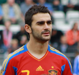 Juan Manuel Mata (#10), Adrián López Álvarez (#7), and Alberto Botía (#20), playing for the Spanish Under-21 team in 2011